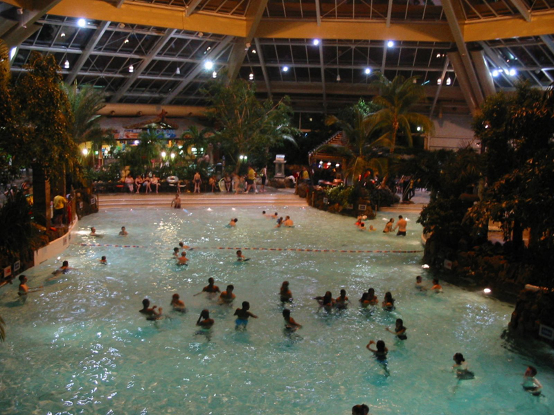 The Subtropical Swimming Paradise, main pool, located in Center Parcs Elveden Forest in Suffolk, England. Picture by Chris Bayley.